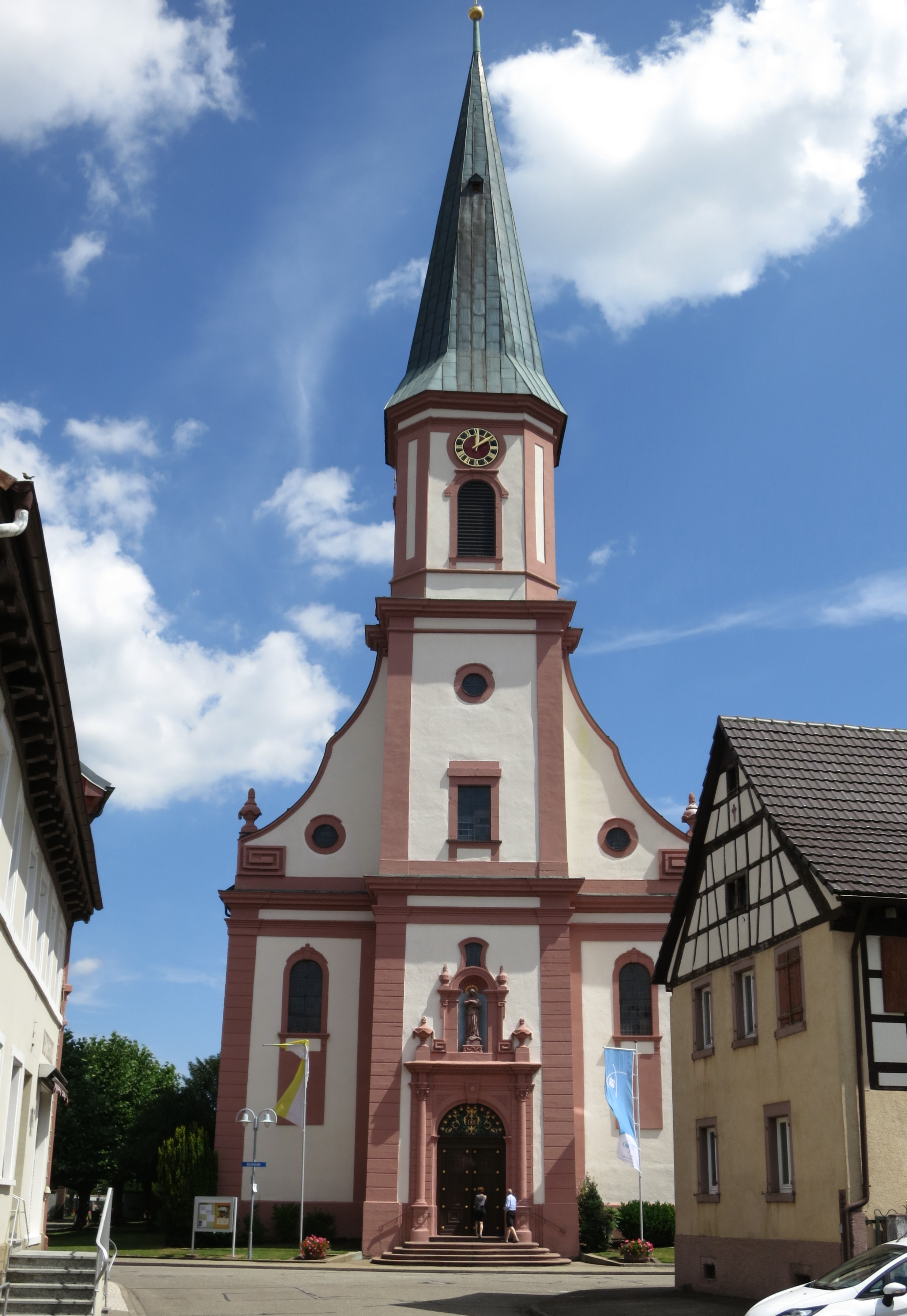 Pfarrkirche St Jakobus Grafenhausen exterior 2014